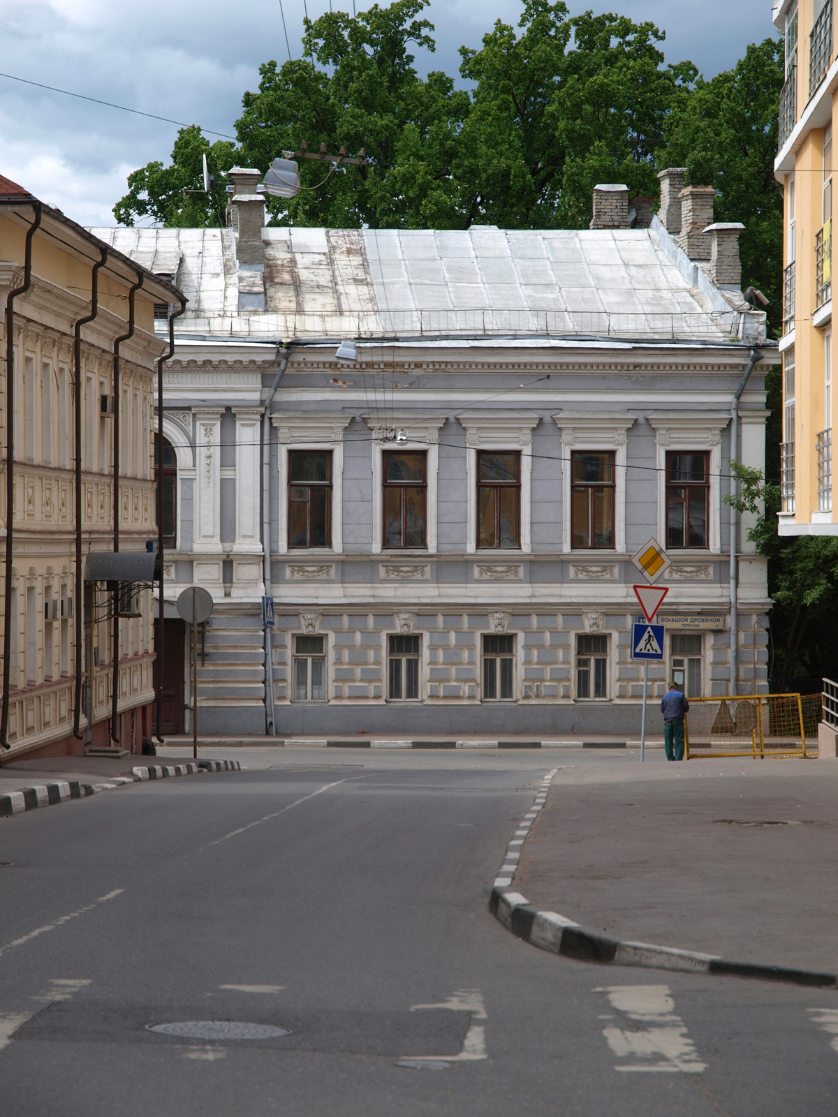 Martynovsky Lane, Moscow - view into Tatarnikov House at 13, Bolshoy Drovyanoy Lane.